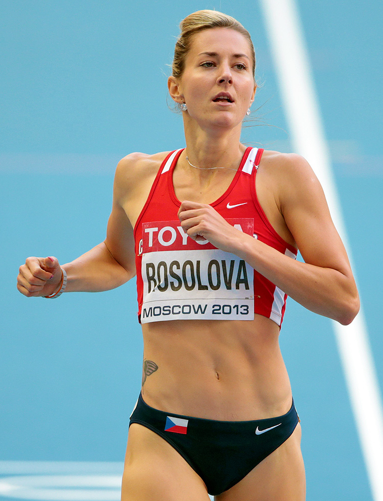 Denisa Scerbova-Rosolova at 2013 World Championships in Athletics